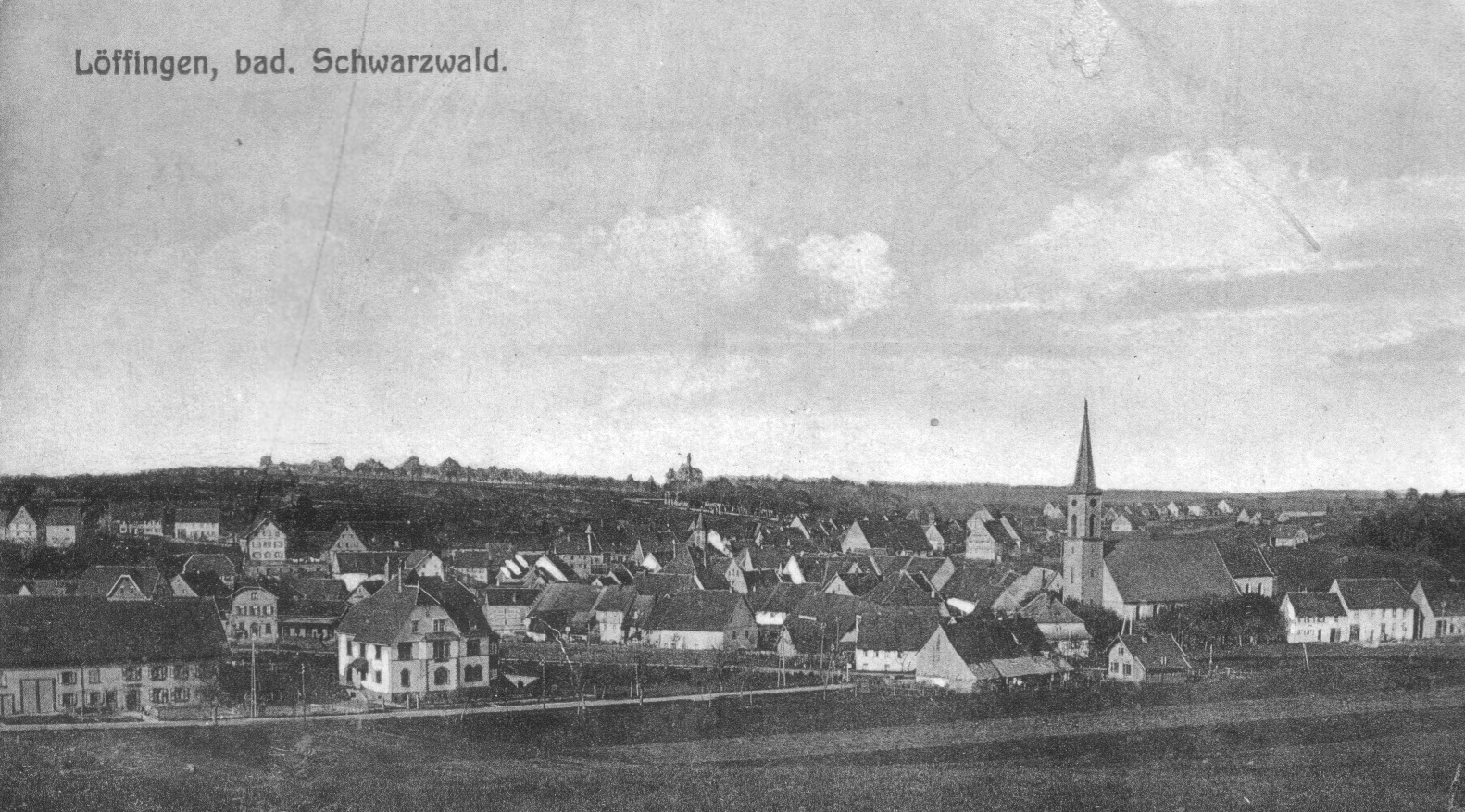 Postcard from Löffingen, Black Forest